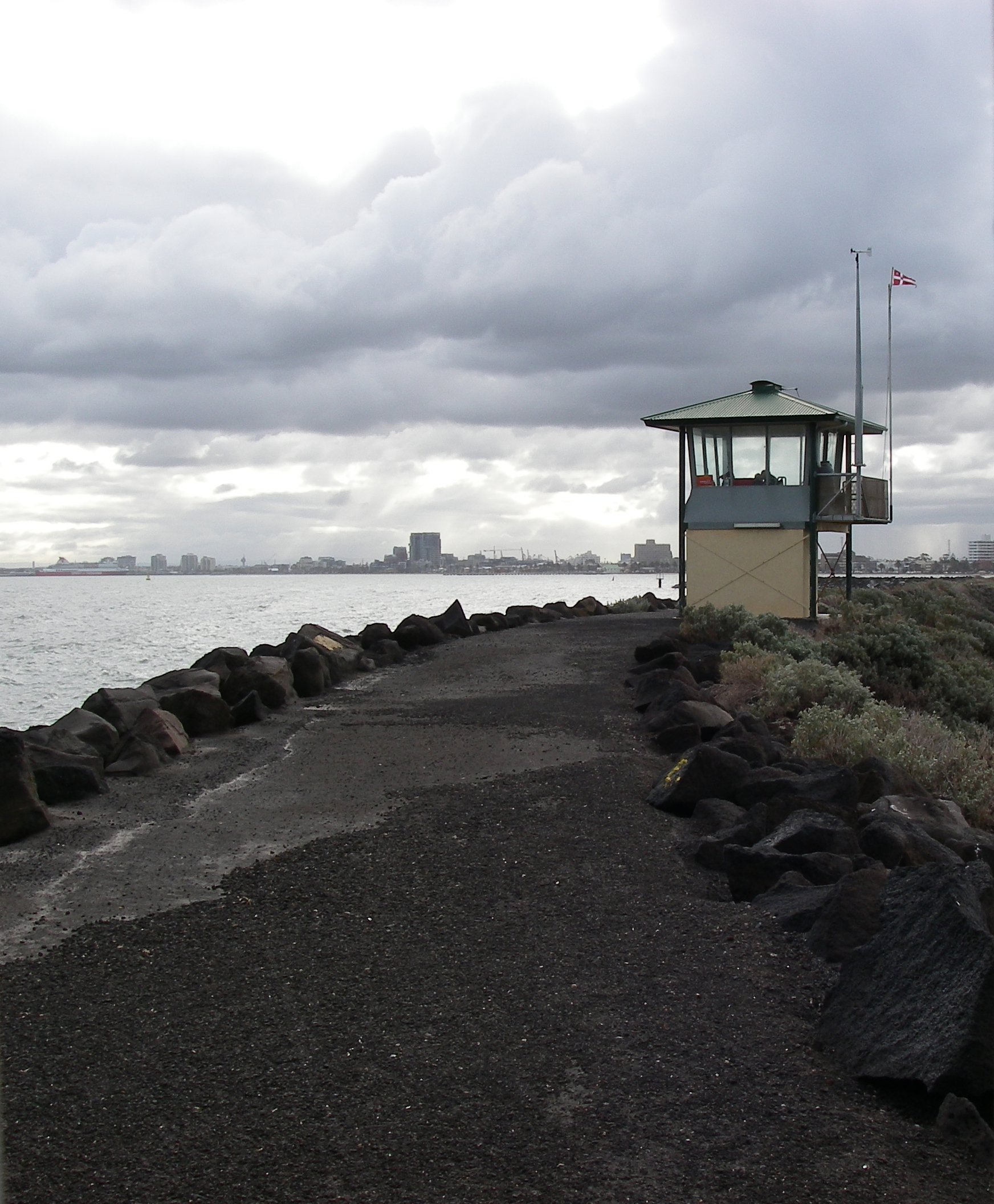 Wildlife observation tower on the St. Kilda Breakwater.